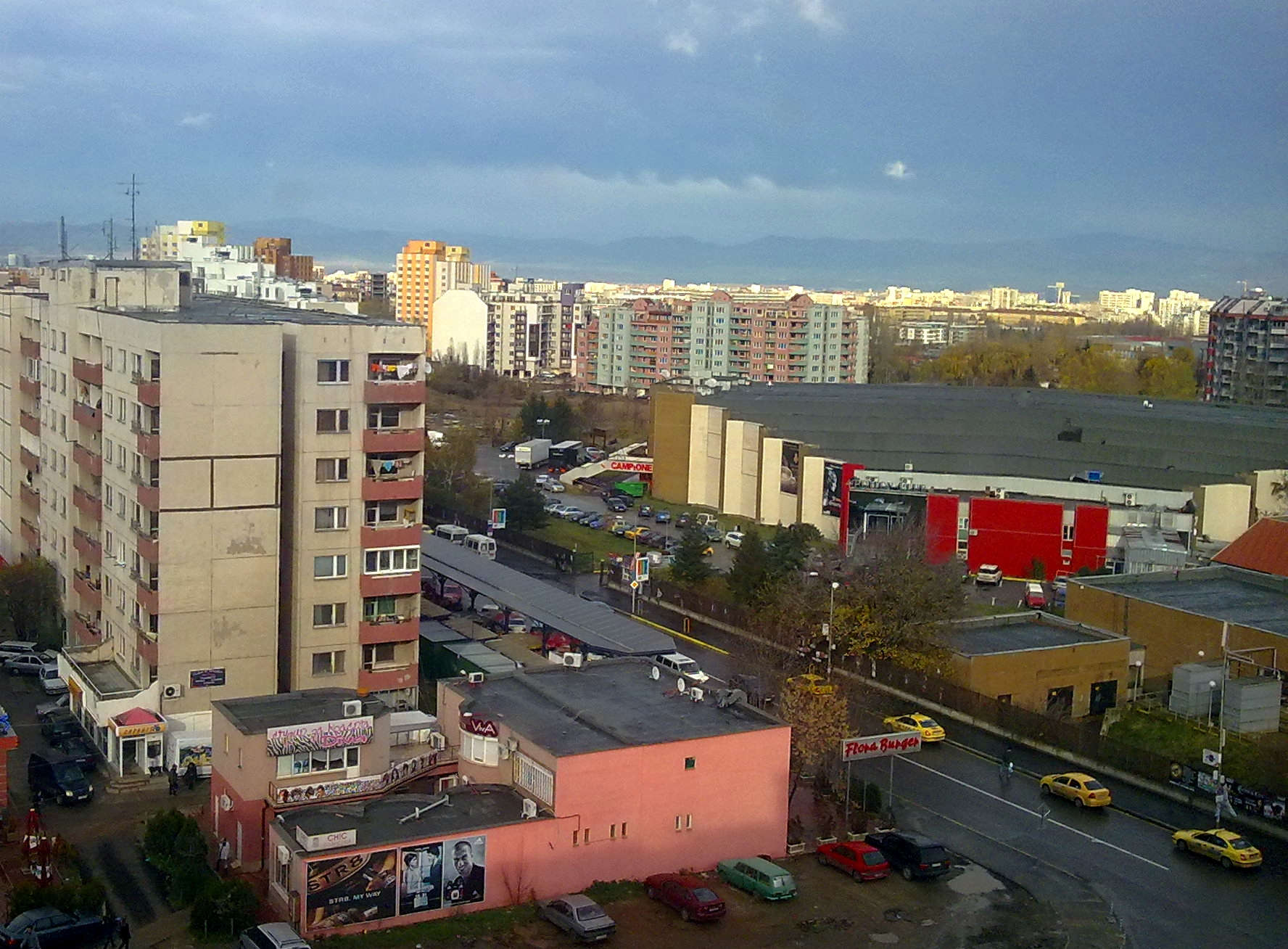 View over the southeastern part of Studentski grad, Sofia. The Winter Palace of Sports on the right. "Akad. Boris Stefanov" Str. in the middle and the Street Market and block 58 on the left.